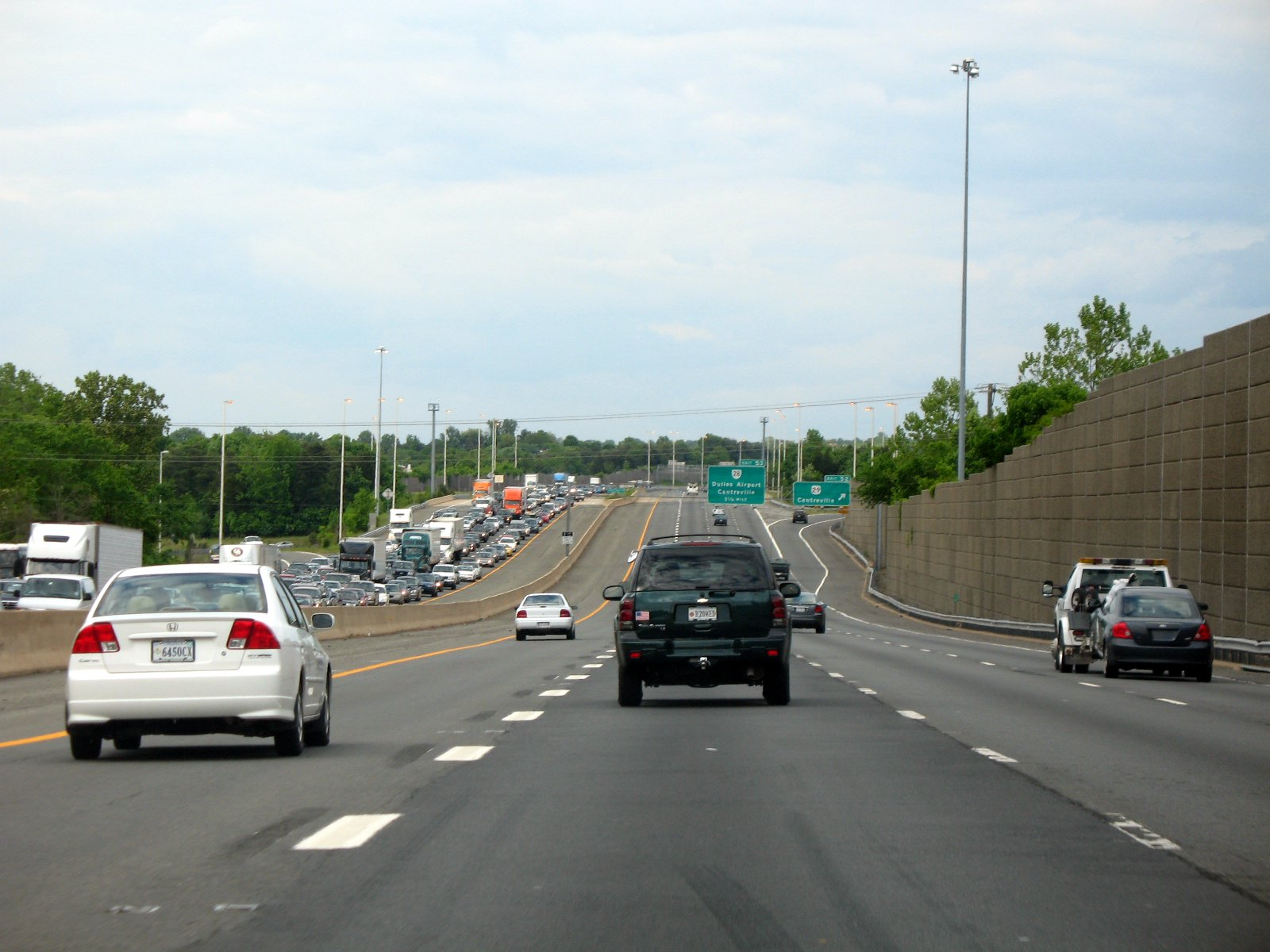 Rush hour traffic on I-66 westbound.